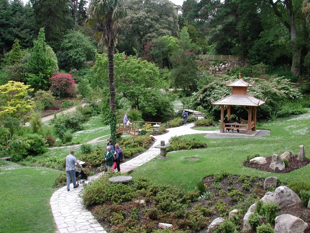 Powerscourt House and Gardens, Enniskerry, Co. Wicklow, Republic of Ireland